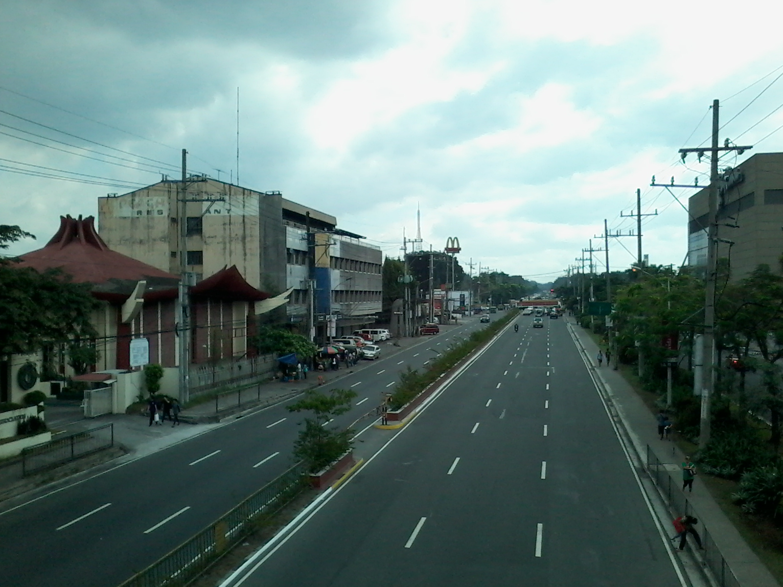 North Avenue, Quezon City, eastward, as seen from the SM City North EDSA-Trinoma overpass